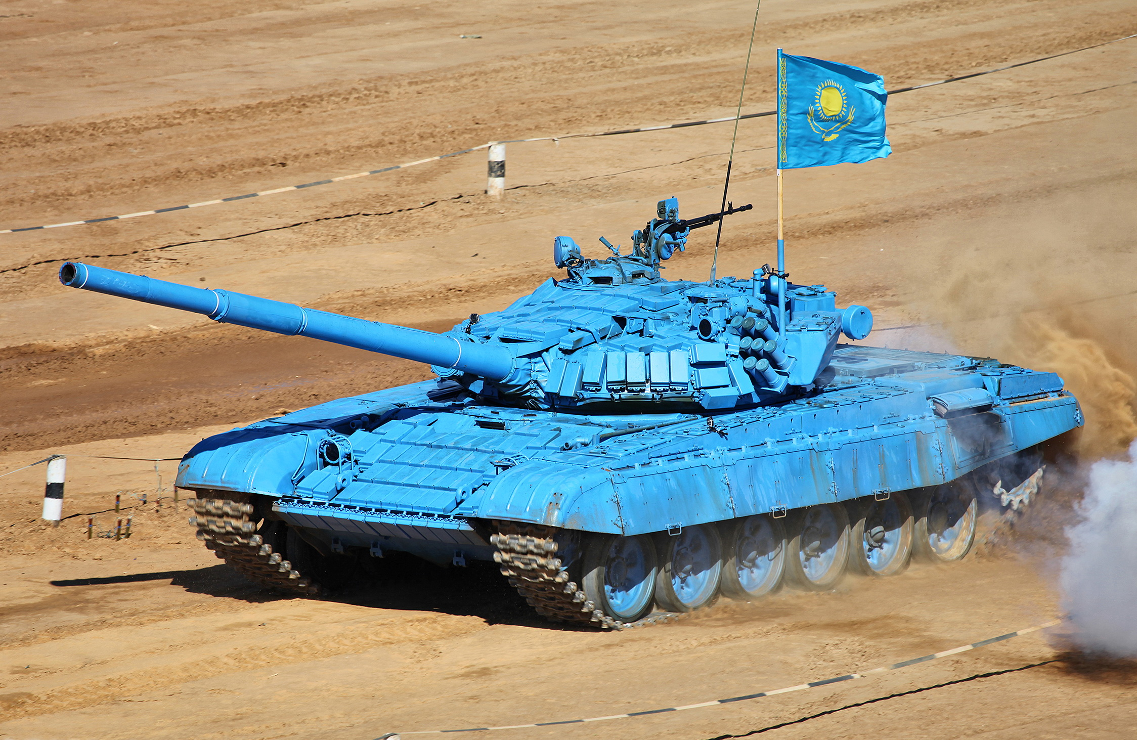 T-72B